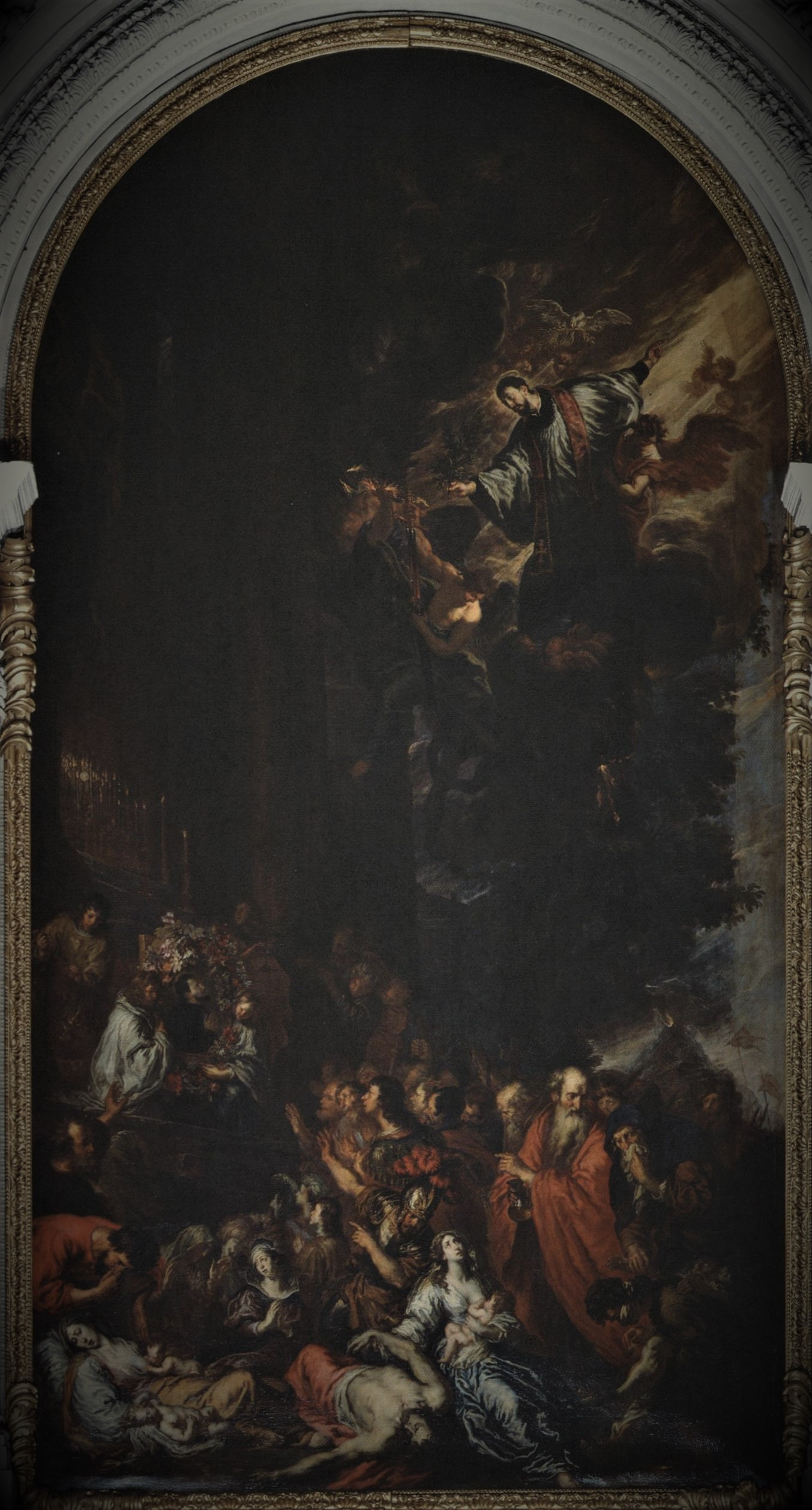 St. Kajetan comes from above as a celestial glimmering light to help the people in the distress of the plague epidemic, which raged in his lifetime (1528)